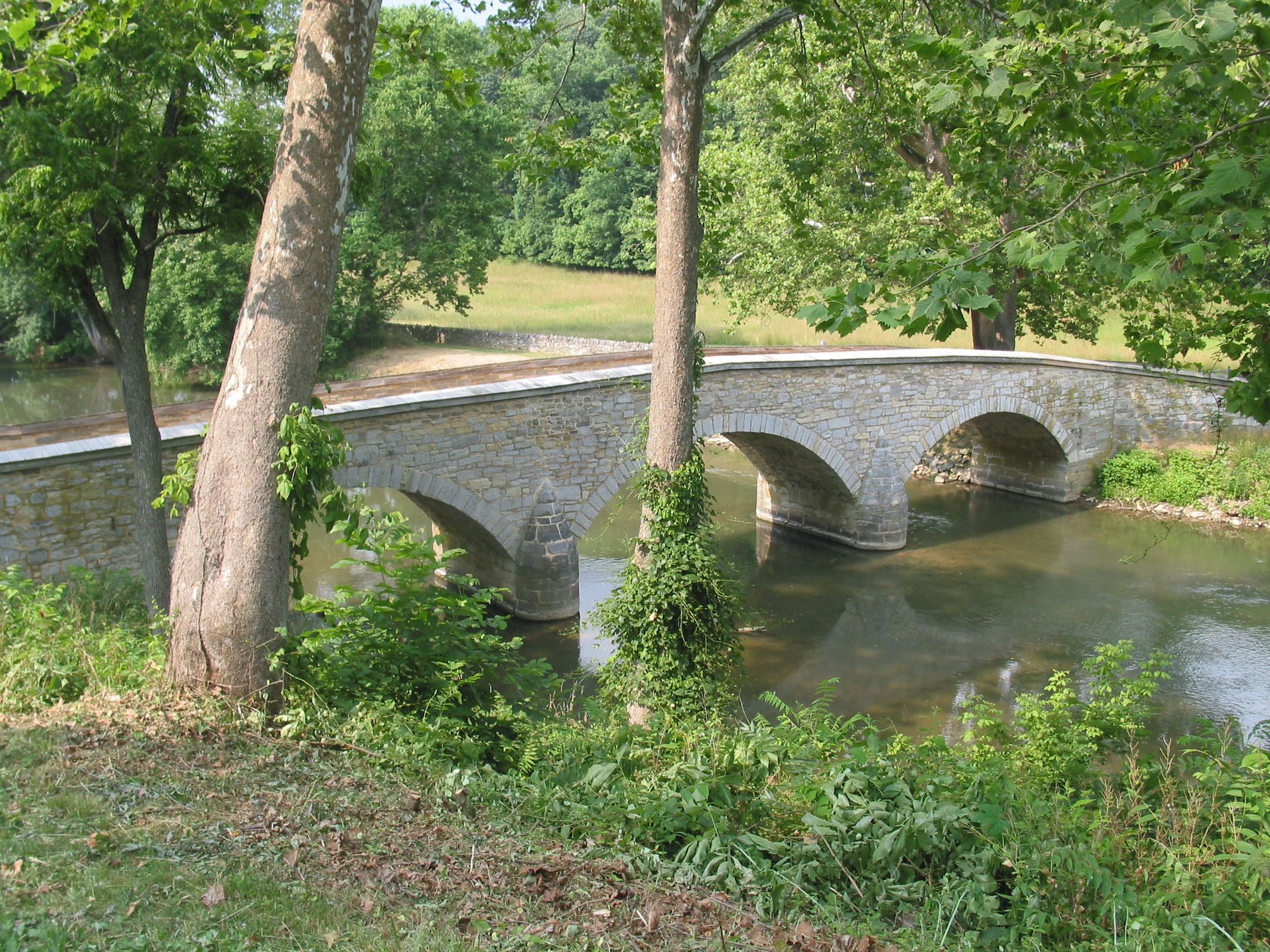 A view of Burnside's Bridge which played a pivotal role in the Battle of Antietam during the American Civil War.